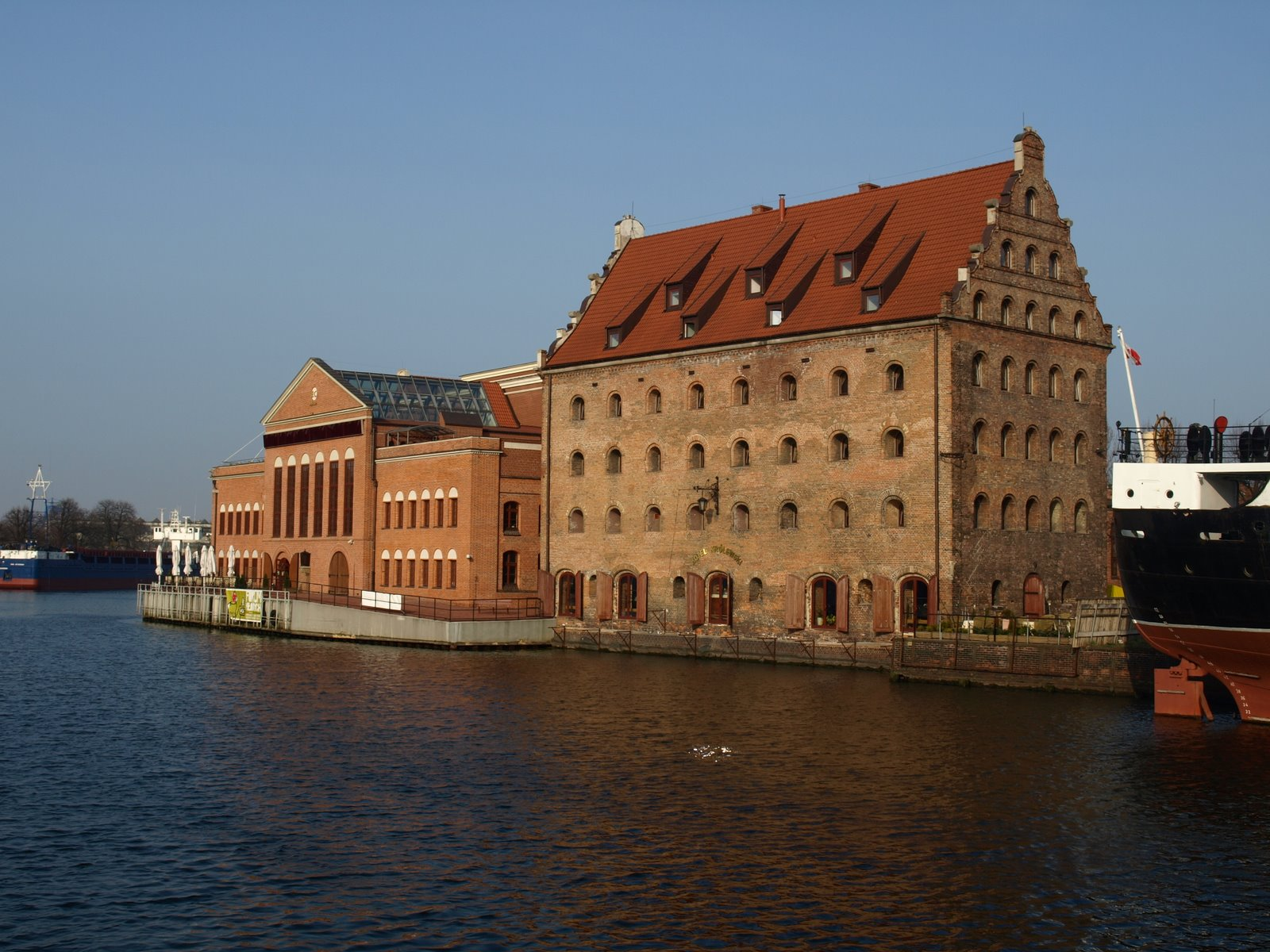 Photographs of the Ołowianka Island Complex: Polish Baltic Philharmonic, Central Maritime Musem and Hotel Królewski